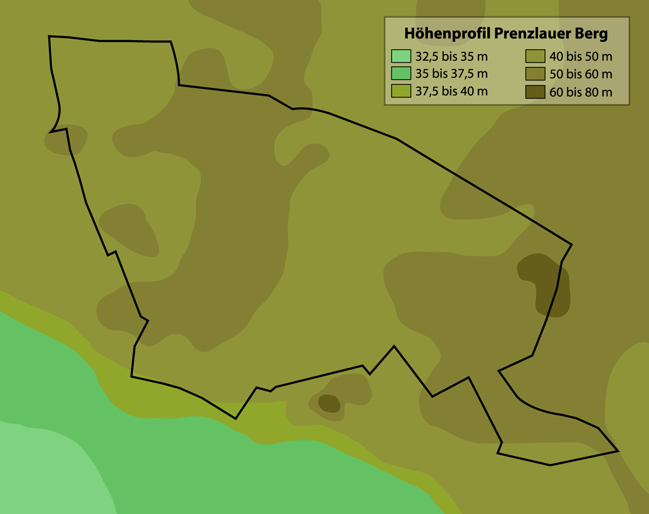 Level sets of Berlin-Prenzlauer Berg